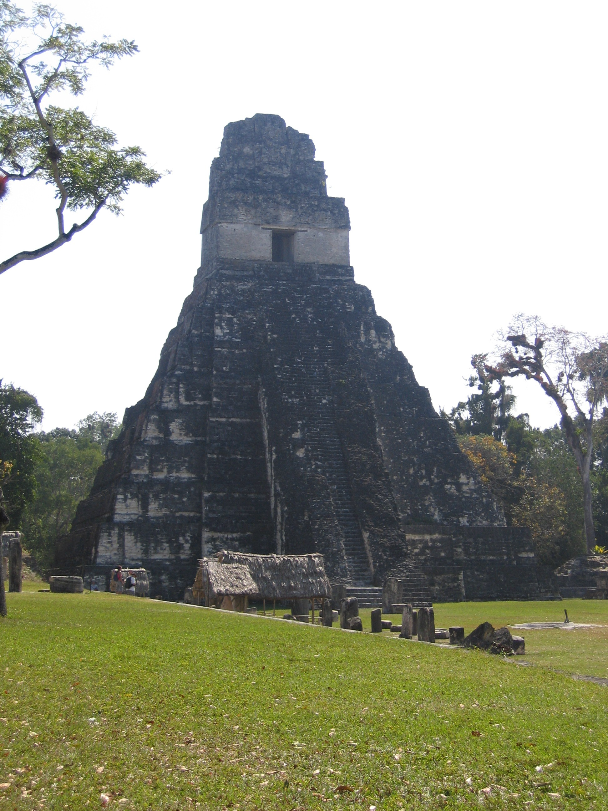 From the mayan site Tikal